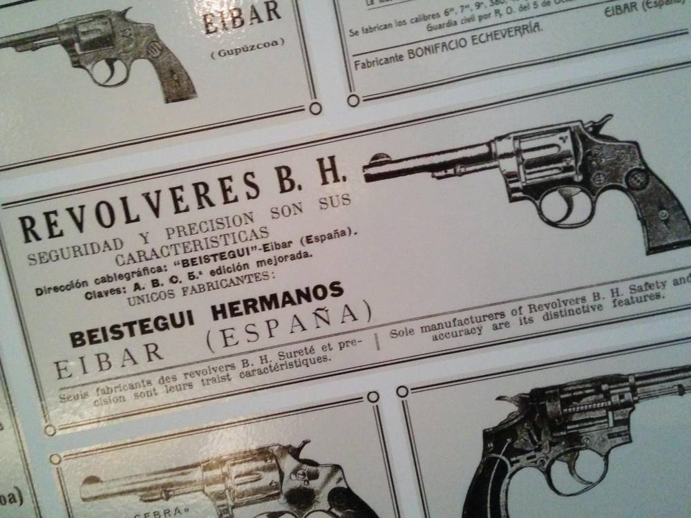 Arms advertising by BH (Beistegui Hermanos)